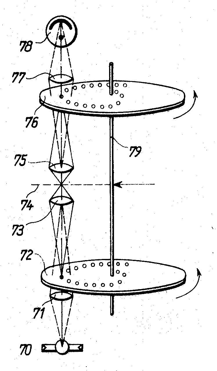 Images from the US-patent 3518014, "Device for Optically scanning the object in a microscope